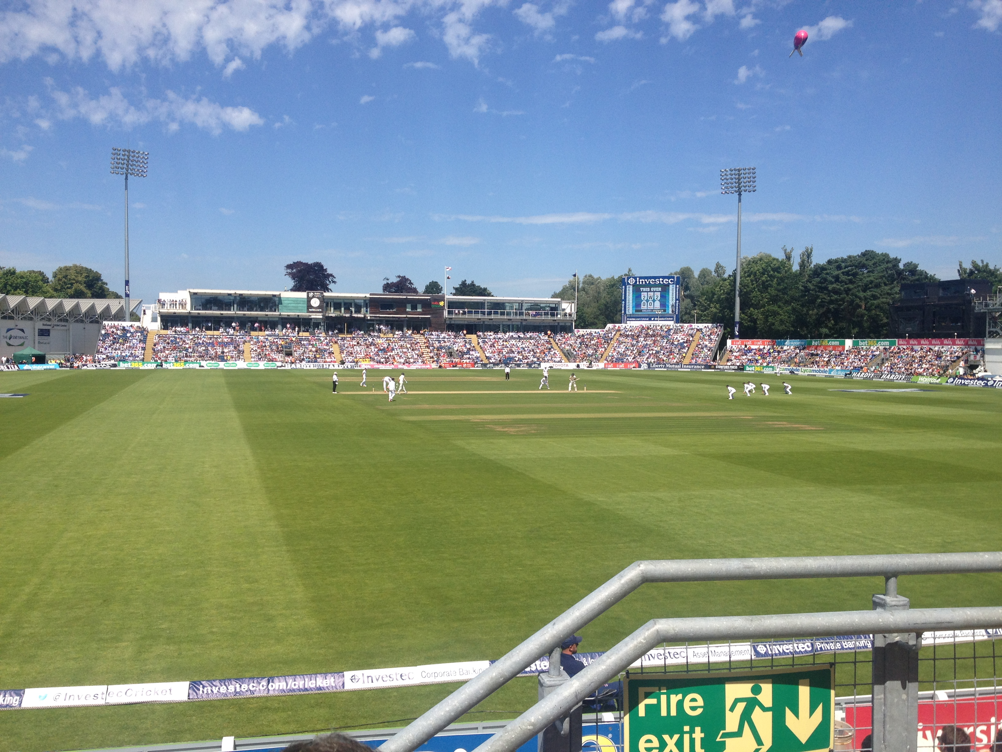 Australia batting on the morning of the third day of the first Ashes Test at Sophia Gardens, Cardiff, on 10 July 2015